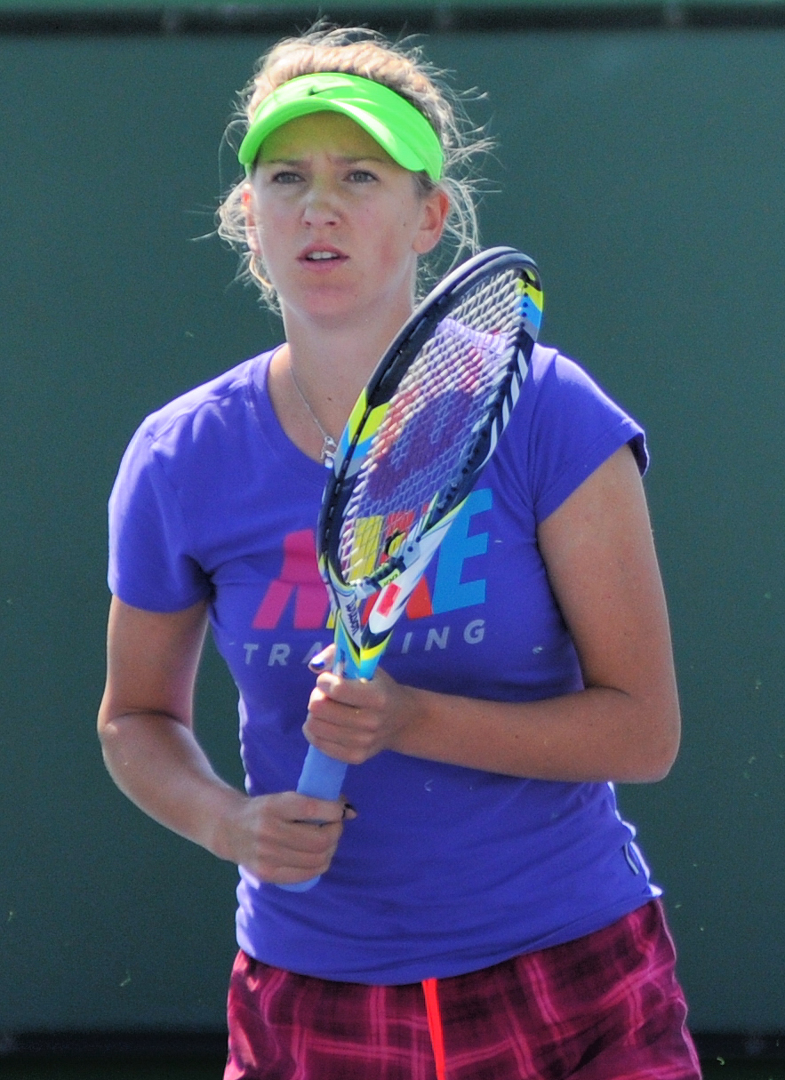 the shirt says it all at the BNP Paribas Open 2012